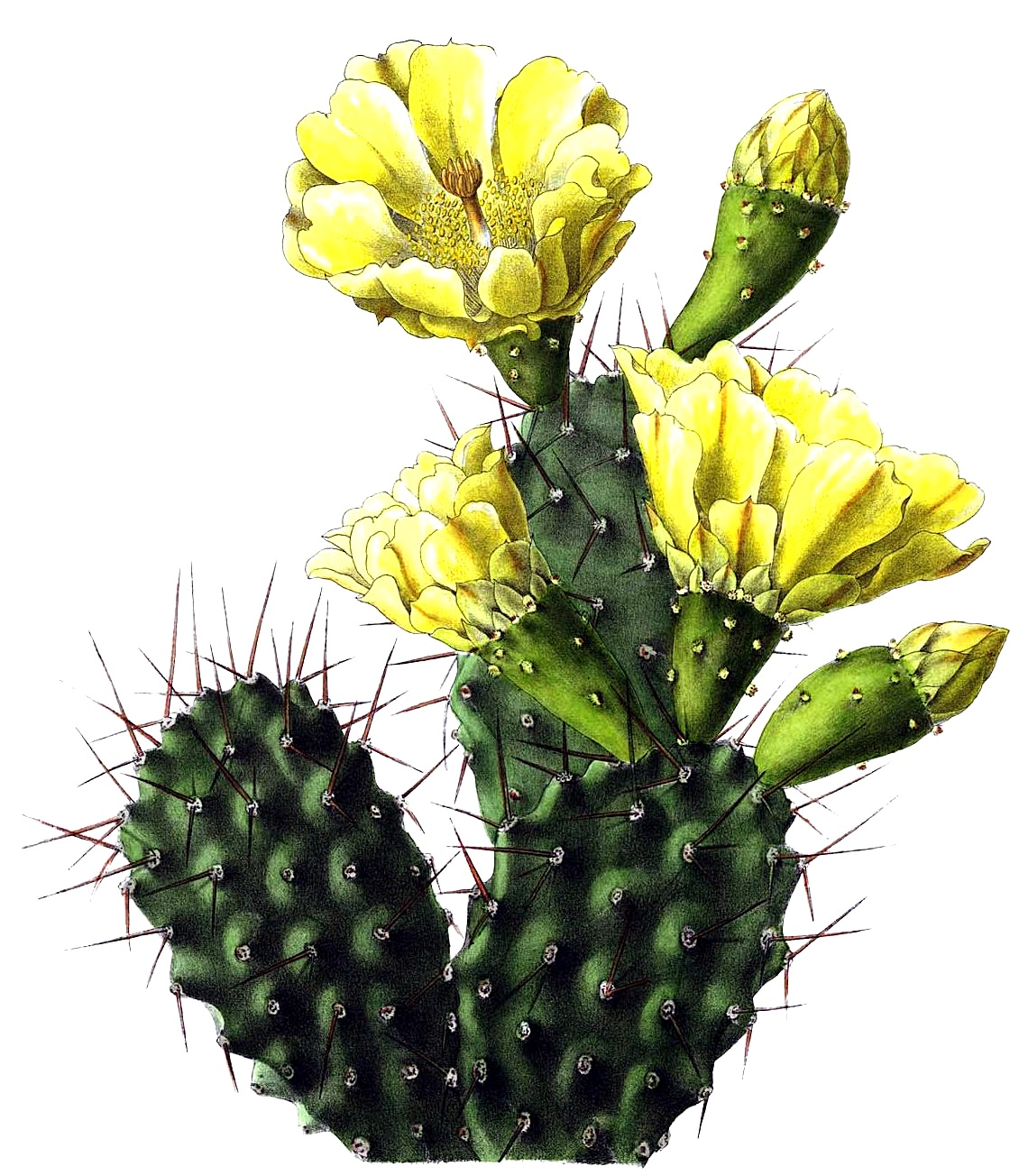 Opuntia sulphurea